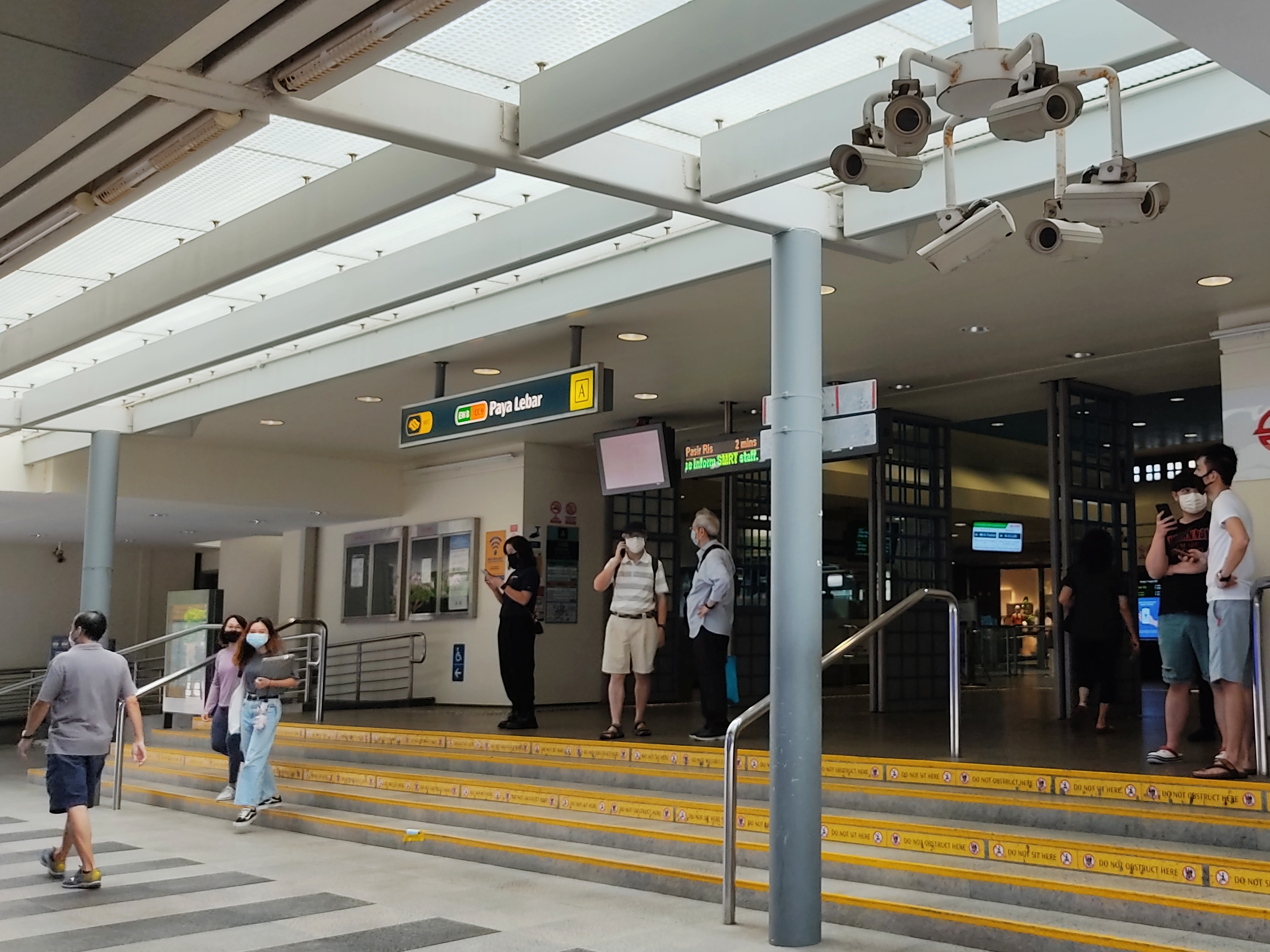 EW8 CC9 Paya Lebar Exit A